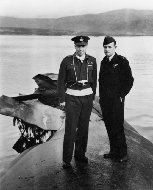 Flight Lieutenant (Flt Lt) Kenneth George Hesketh during a visit to the wreck of the German battleship Tirpitz in Tromsoe Fiord, Norway after the war. Flt Lt Hesketh (right) is accompanying Wing Commander James Brian "Willie" Tait, RAF, DSO and Three Bars, DFC and Bar, who led the bombing raid that successfully sunk the Tirpitz on 12 November 1944.